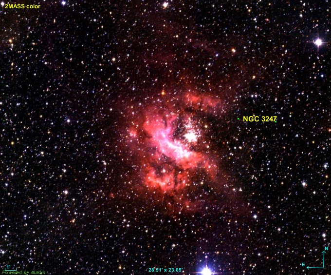 Image created using the Aladin Sky Atlas software from the Strasbourg Astronomical Data Center and 2MASS public data.